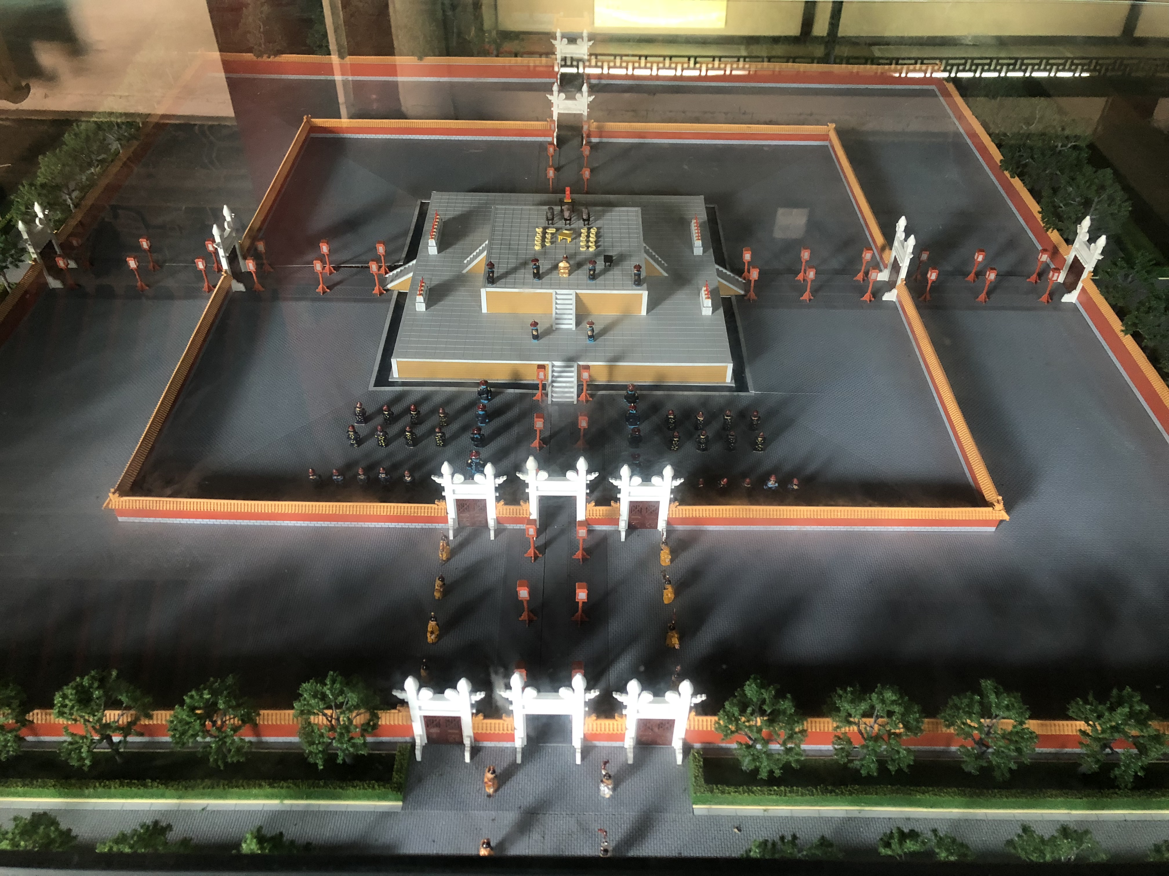 地坛公园模型